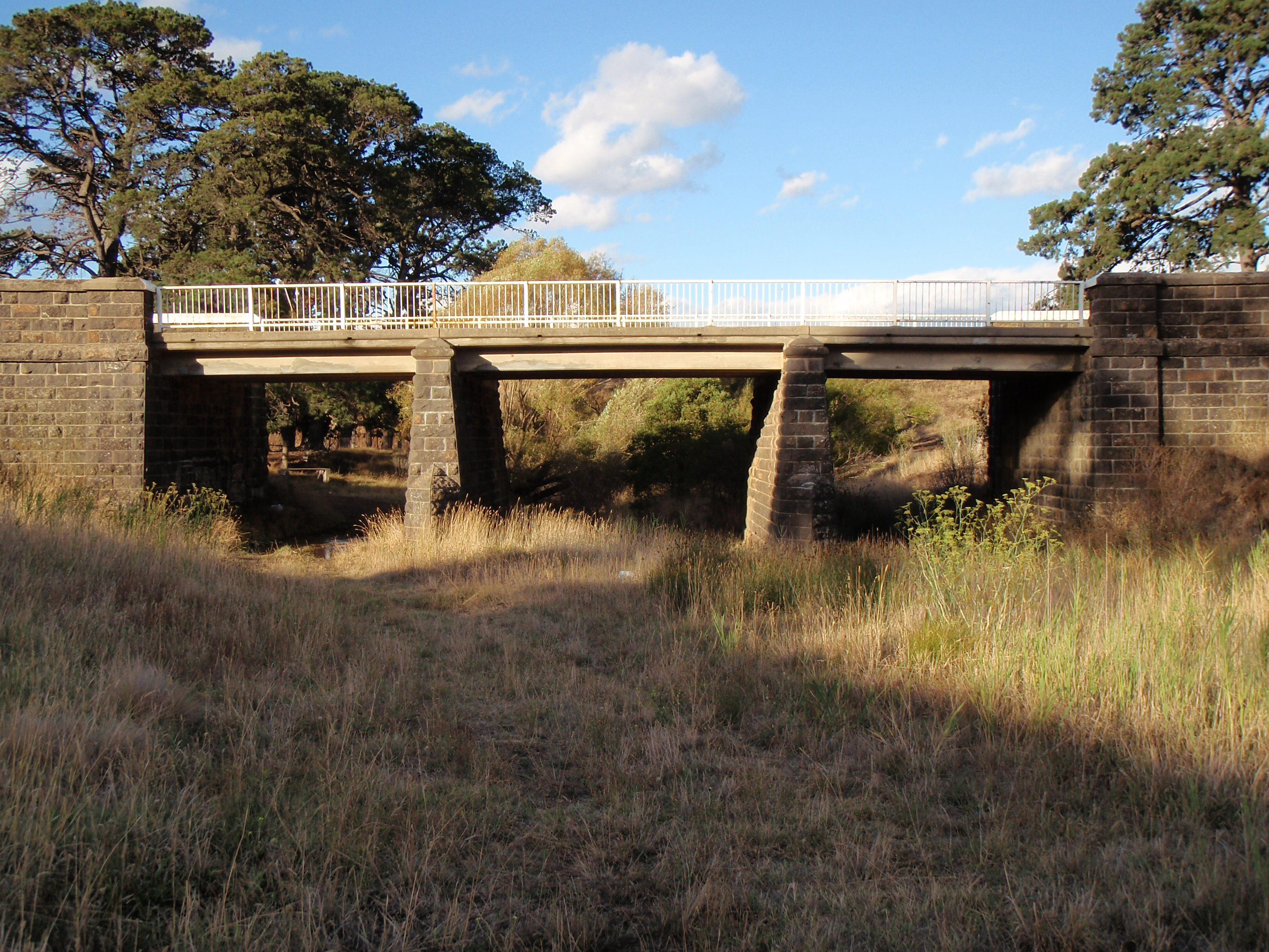 The Bolinda Bridge crossing the creek of the same name, near Bolinda, Victoria, Australia